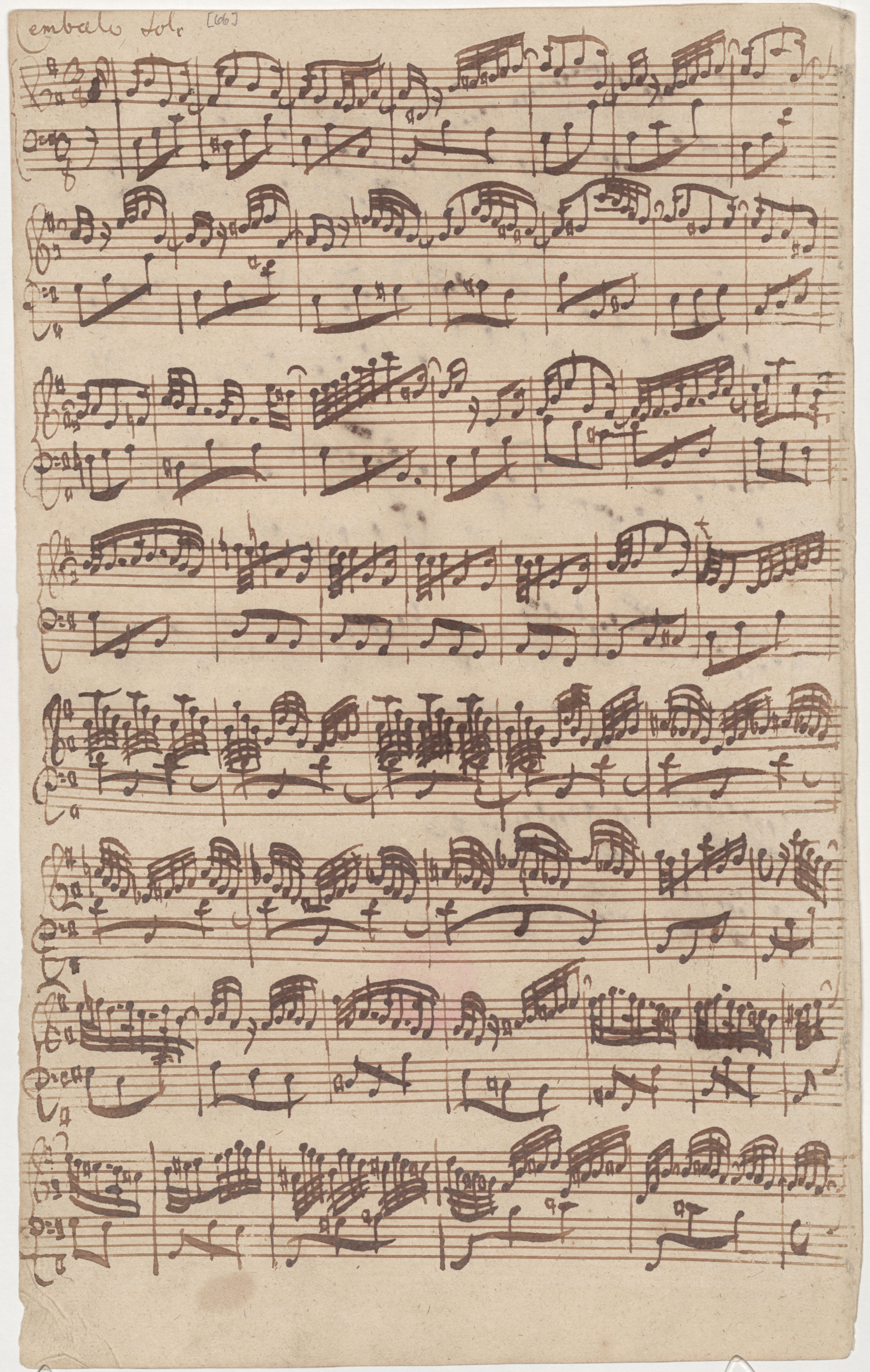 Autograph manuscript of the first page of the Allegro for harpsichord solo from the first version of the sixth sonata in E minor for obbligato harpsichord and violin, BWV 1019a, by Johann Sebastian Bach. The Allegro was later incorporated as the Corrente in Bach's sixth partita in E minor, BWV 830. To view in different resolutions, please use the zoom viewer.